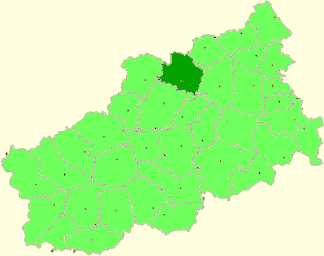 Tver Oblast map by Al Silonov